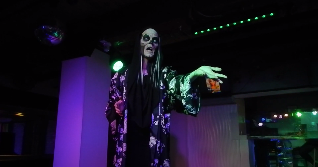 Chelsea Horrendous performing "I'm Not Madonna" during Thursday Tribute Nights: Madonna (Back from the Ma-Dead) hosted by Agata Gogh & God at Evolution Wonderlounge in Edmonton, Alberta, Canada on June 20, 2019 | Caption from video: 0:28 s.